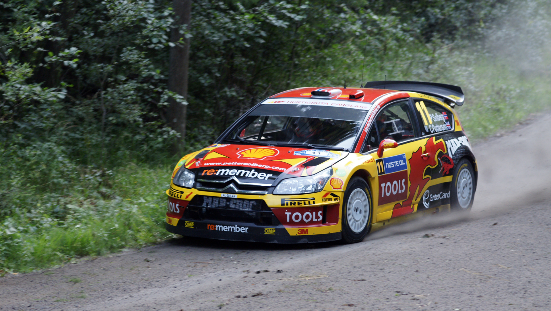 Petter Solberg driving at Rannakylä shakedown in Muurame.